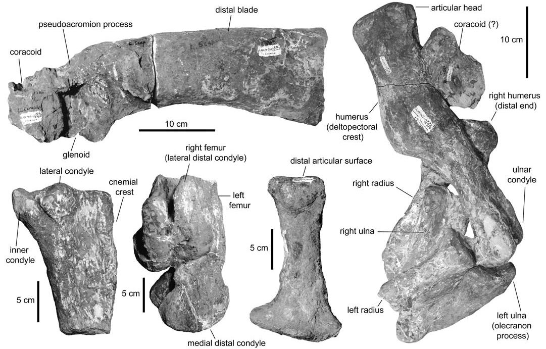 Appendicular elements of a hadrosaurid dinosaur Augustynolophus (formerly Saurolophus) morrisi. (LACM/CIT 2760, a subadult), lower Maastrichtian Moreno Forma− tion of Panoche Hills, Fresno County, California, USA. A. Partial left scapula and coracoid in lateral view. B. Partially articulated forelimb elements. C. Proximal segment of right tibia in lateral view. D. Distal fragments of femora. E. Right metatarsal III in dorsal view.